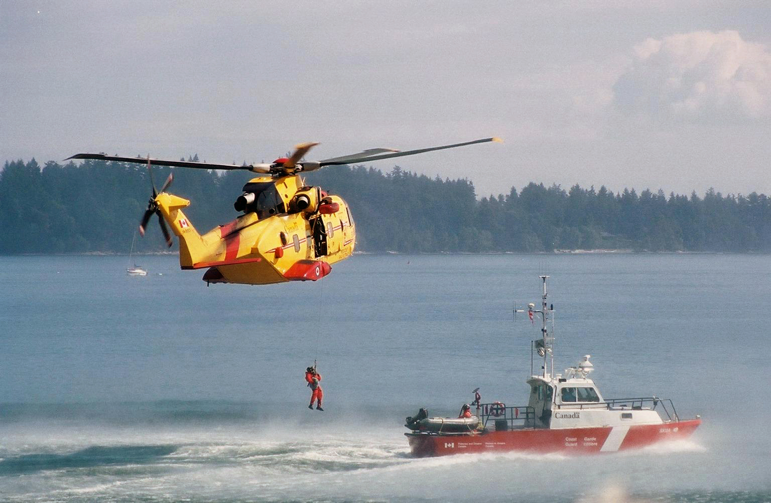 Canadian Air Force CH-149 Cormorant (AugustaWestland EH101) search and rescue helicopter and a Canadian Coast Guard ship in training.